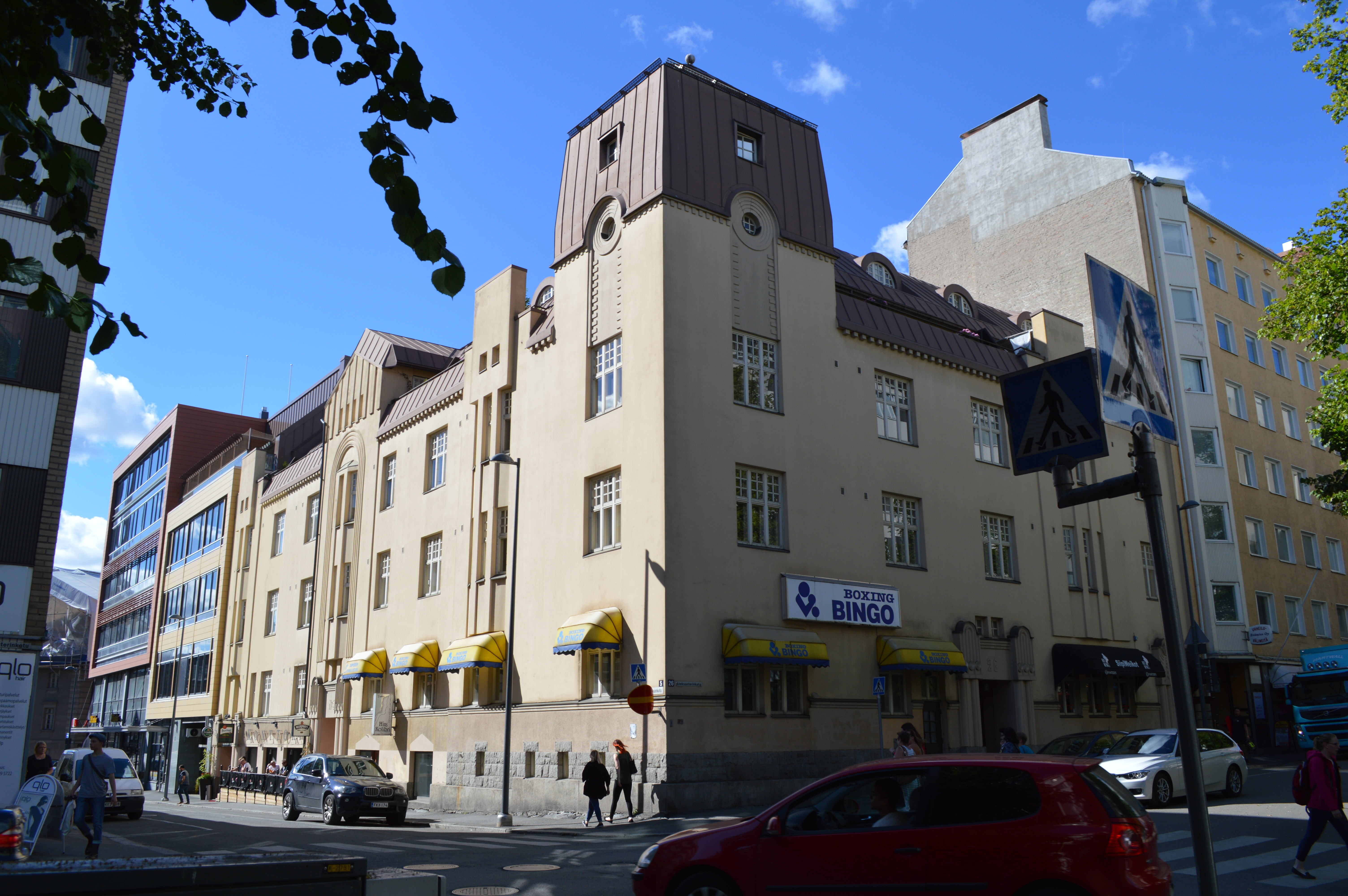 House of Osonen at the corner of Aleksanterinkatu and Verkatehtaankatu